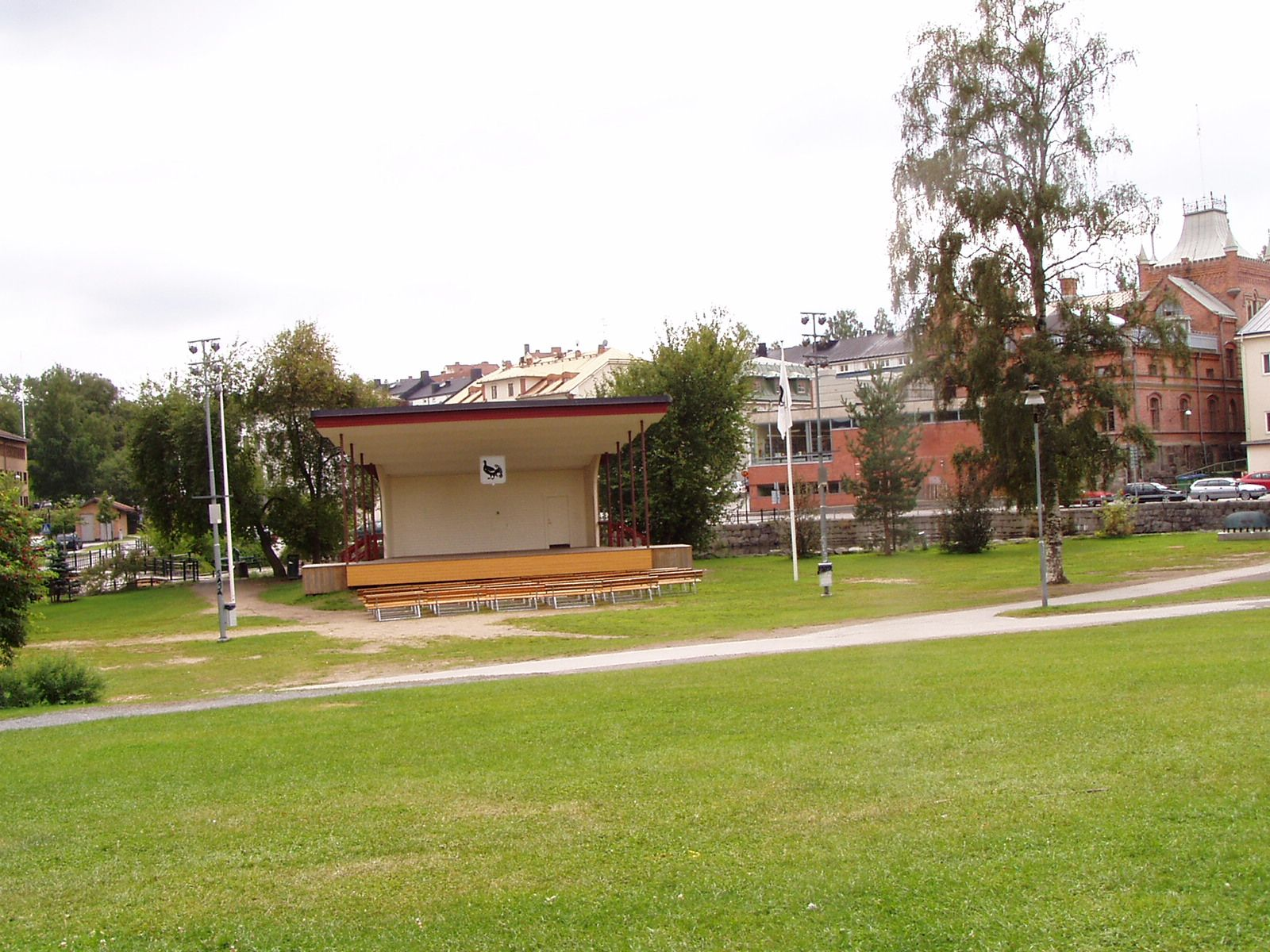 The city park in Sollefteå